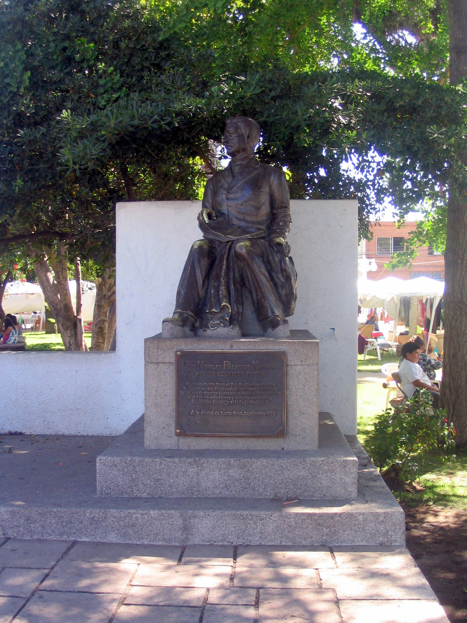 Nicolás Palacios statue on Santa Cruz's Main Square, in December 22, 2009.